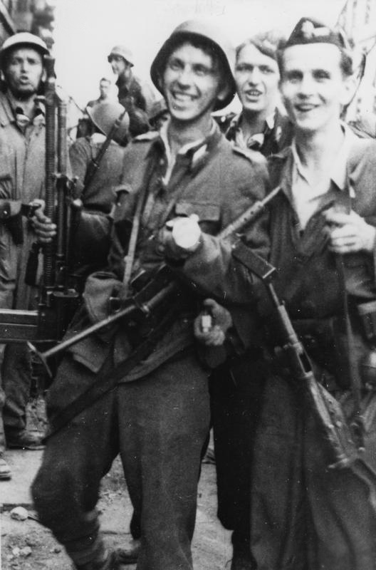 Warsaw Uprising: Insurgents from "Kiliński" battalion after securing "PAST" building, at Zielona Street on August 20, 1944: standing with machine gun Edward Mortko "Tumry", next on the right - Bernard Zieliński "Połabski", behind - on the left Zbigniew Maliński "Sławicz", on the right - Kazimierz Zagórski "Barbara".